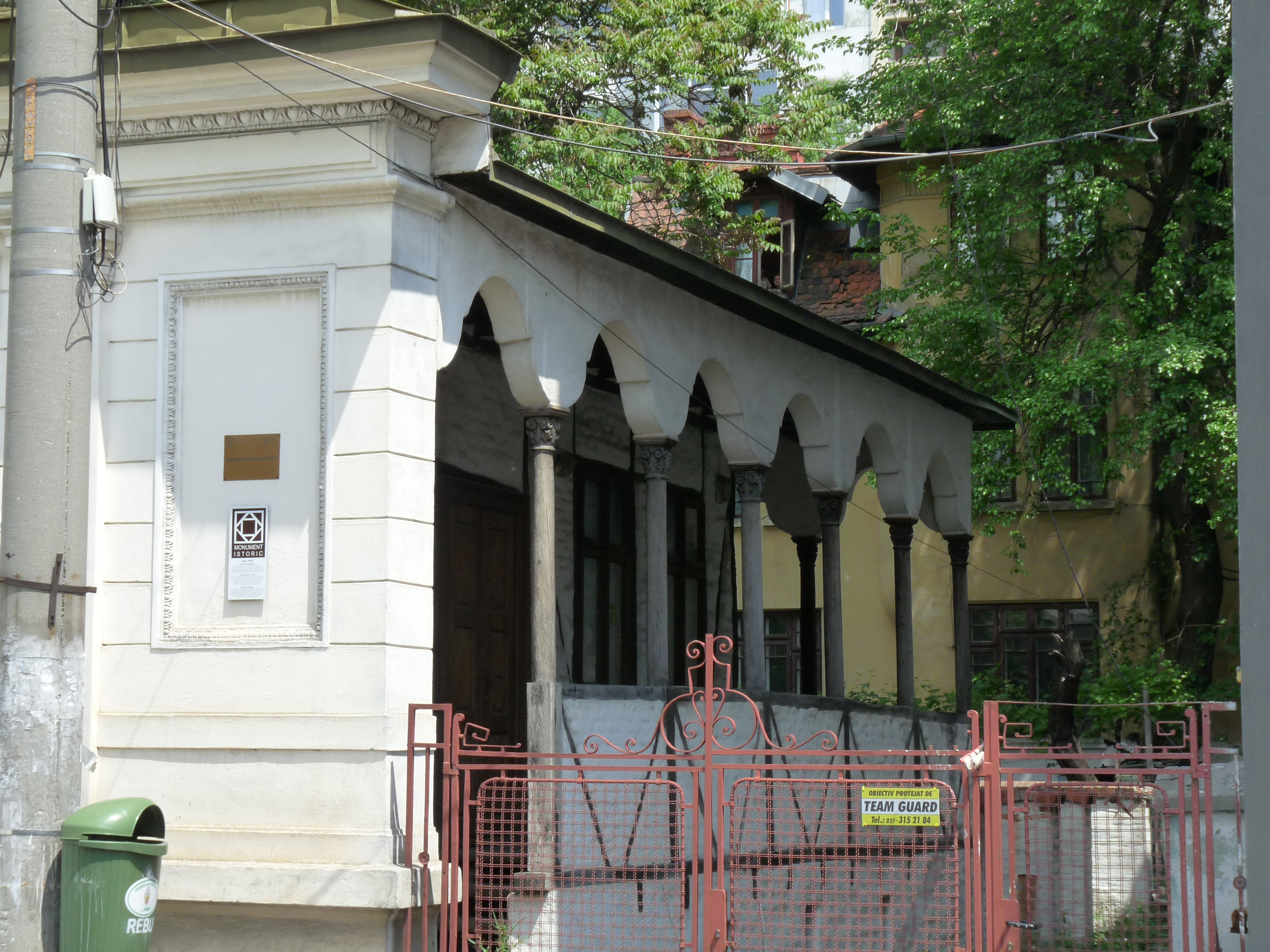 A merchant's house in Bucharest, Romania, on Şerban Vodă road 33